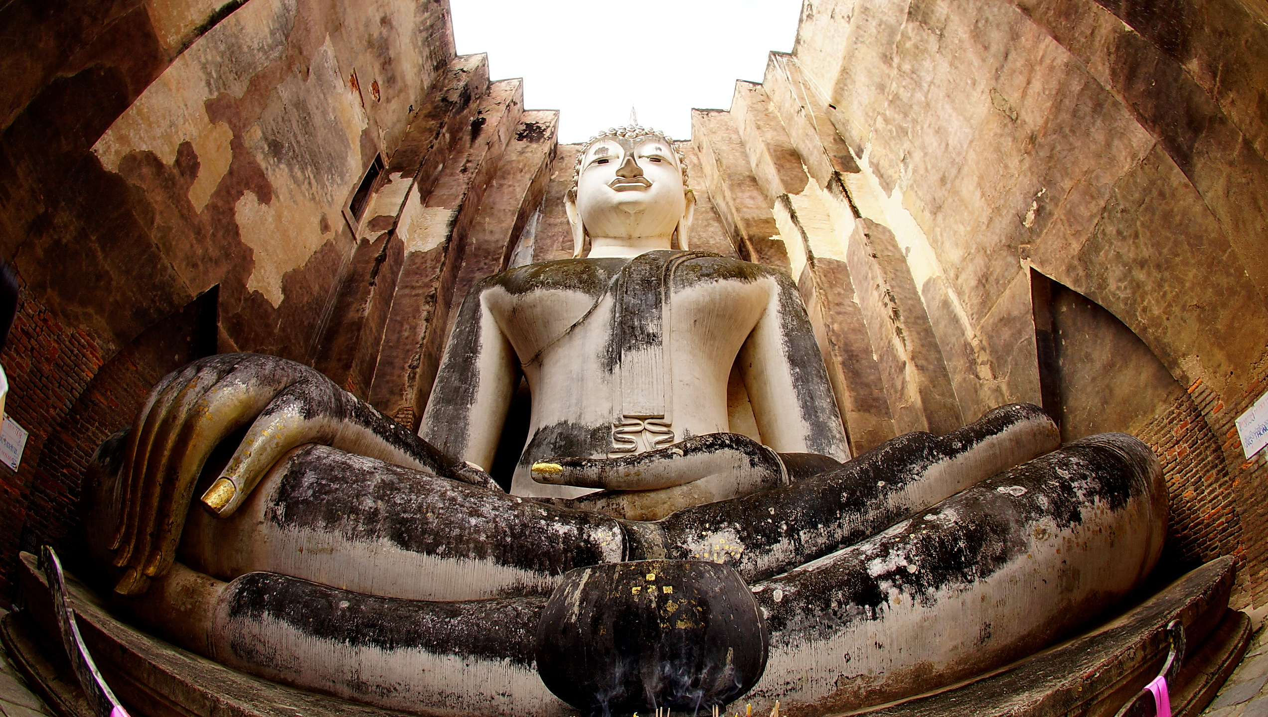 Wat Si Chum, Mueang Kao Subdistrict, Mueang Sukhothai District, Sukhothai Province